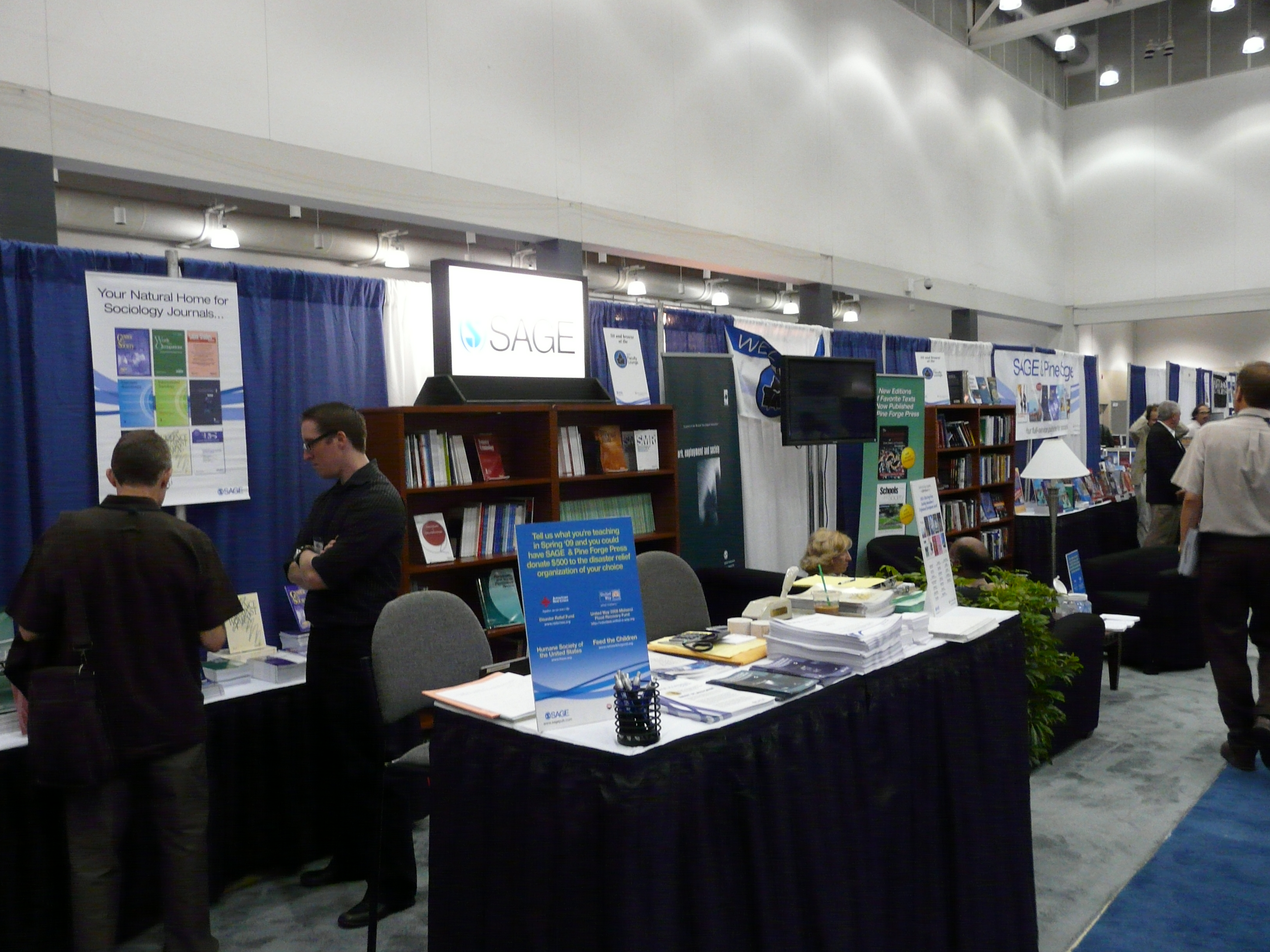 Boston. American Sociological Association conference.